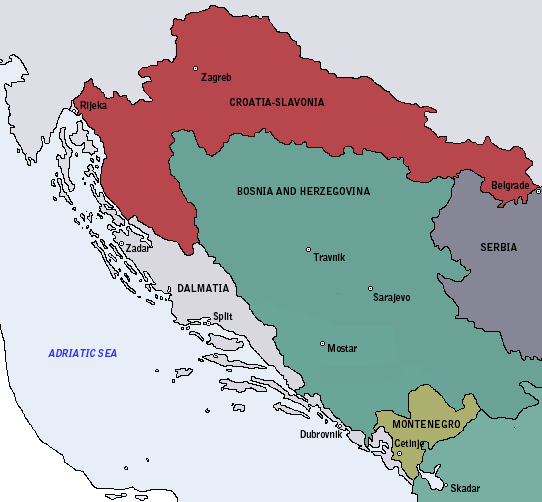 Map of the Kingdom of Croatia Slavonia cca. 1885. The Kingdom was a part of Transleithanian Austria-Hungary, the Kingdom of Hungary (Lands of the Crown of St. Stephen).